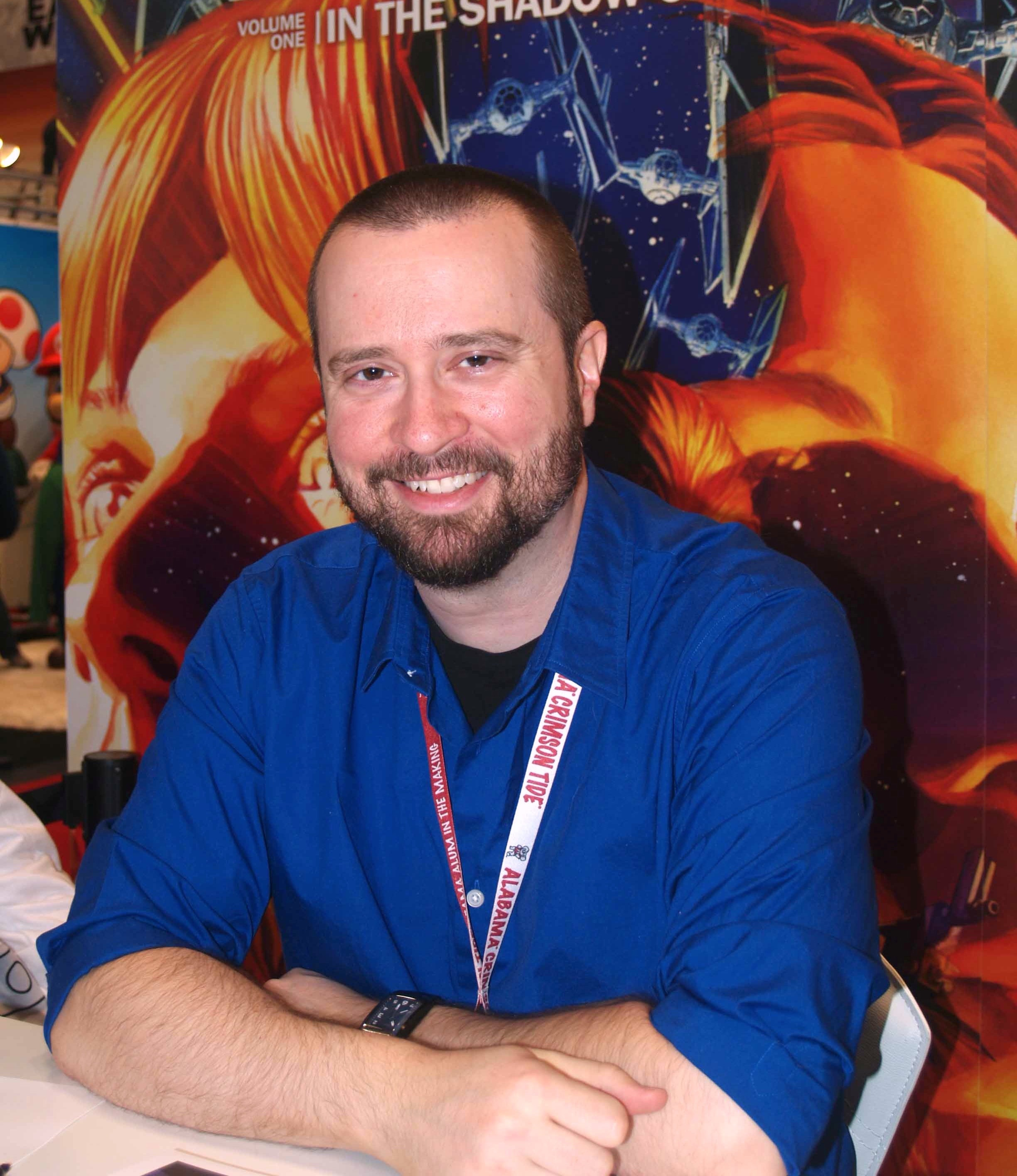 Comic book writer and novelist Dan Jolley in Artists Alley on Sunday, October 13, 2013 at the Jacob K. Javits Convention Center in Manhattan, Day 4 of the 2013 New York Comic Con. This photo was created by Luigi Novi. It is not in the public domain, and use of this file outside of the licensing terms is a copyright violation.